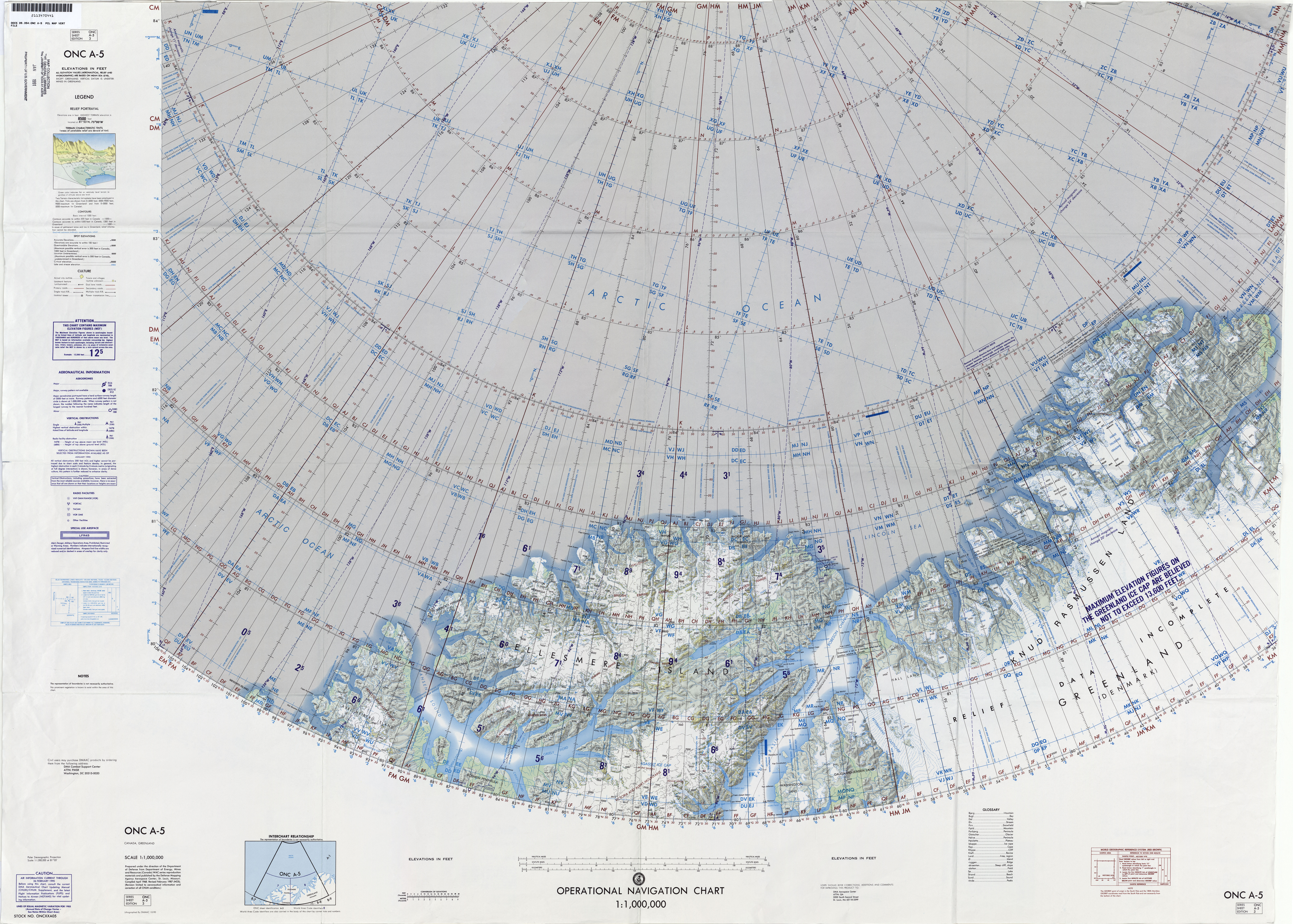 1:1,000,000 scale Operational Navigation Chart, Sheet A-5, 3nd edition. Covers Canada and Greenland (Denmark). Polar Stereographic Projection. Central longitude 70 47 30W.